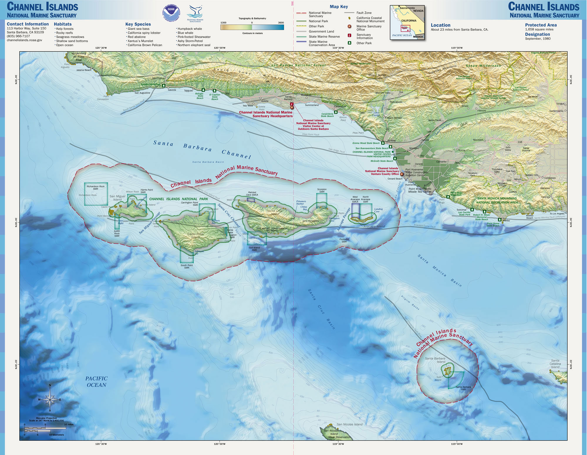 Map of the Channel Islands National Marine Sanctuary — Southern California. Around the northern Channel Islands of California.